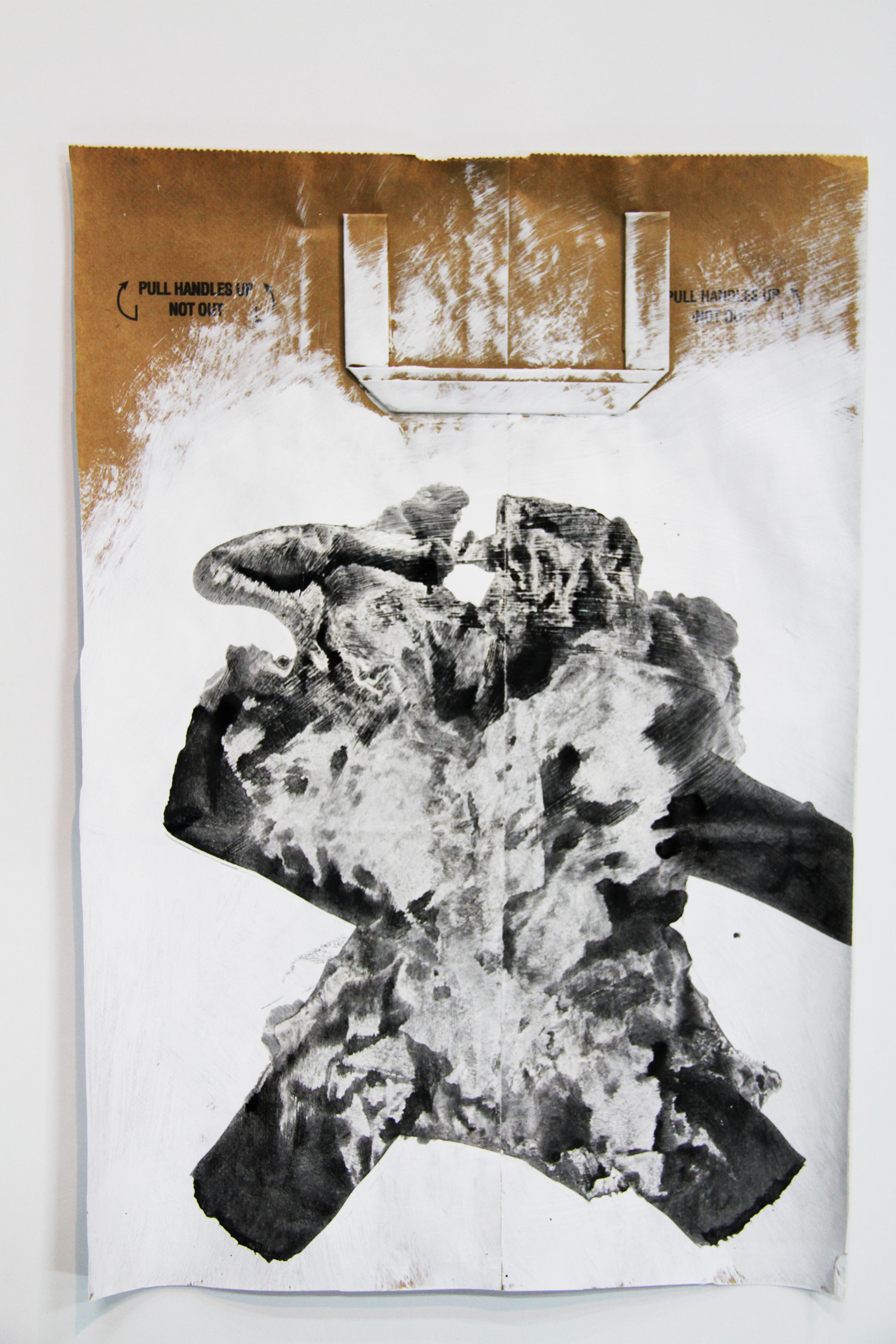 Nina Staehli Berlin, Luzern, Kansas City